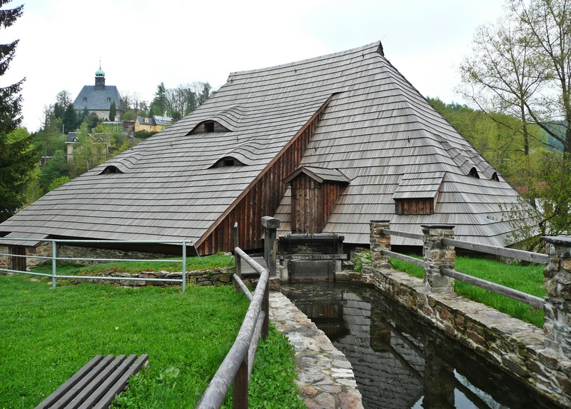 Olbernhau-Grünthal, historic copperworks, background: church of Oberneuschönberg.